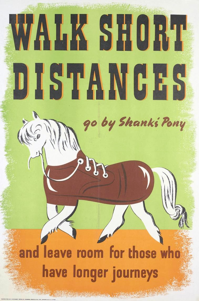 Walk Short Distances - Go by Shanks' Pony whole: the image occupies the whole, with the title integrated and positioned in the upper third, in black outlined orange. The subtitle is integrated and placed in the centre right, in brown. The text is separate and located in the lower quarter, also in brown. image: a depiction of a pony, with its torso shaped and coloured to look like a shoe. The pony holds the shoelace in its mouth. text: WALK SHORT DISTANCES go by Shanks' Pony and leave room for those who have longer journeys PRINTED FOR H.M. STATIONERY OFFICE BY JOHNSON, RIDDLE AND CO., LTD., LONDON S.E. 20. 51-4377.